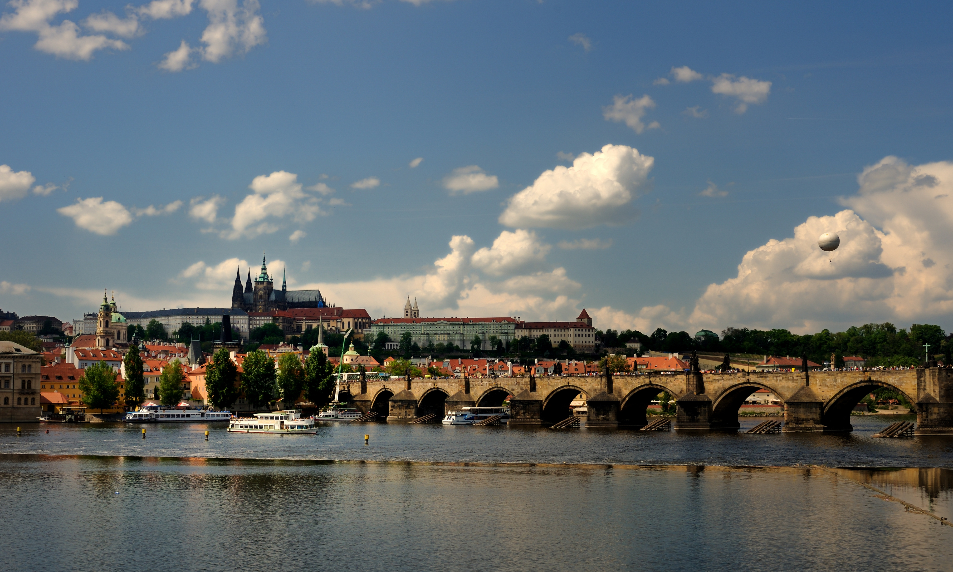 Prague castle and Charles bridge